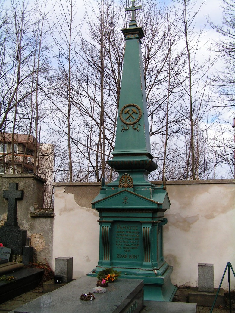 Memorial of victims of the 1892 St. Mary's Mine fire in Příbram, which claimed 319 lives making it the deadliest mining disaster of all times on territory of the Czech Republic.